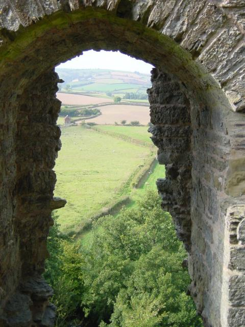 Looking west from Clun Castle. Clun Castle was originally built by the Normans in around 1090 as a defence against the Welsh.